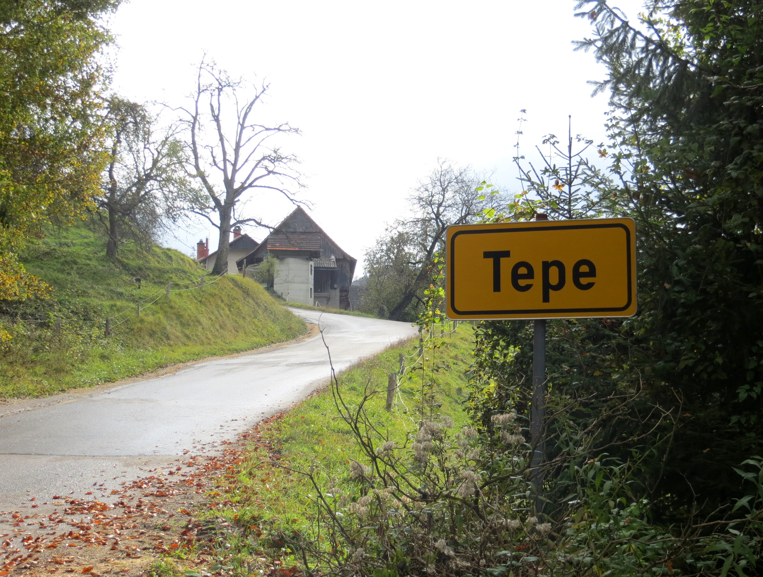 Tepe, Municipality of Litija, Slovenia